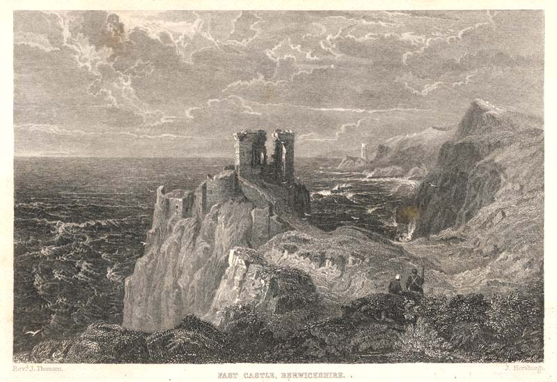 Reverend John Thomson pinxit John Horsburgh sculptit.